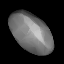 3D convex shape model of 900 Rosalinde, computed using light curve inversion techniques. J. Hanuš, J. Ďurech, M. Brož, B. D. Warner (June 2011). "A study of asteroid pole-latitude distribution based on an extended set of shape models derived by the lightcurve inversion method". Astronomy and Astrophysics 530: A134. ISSN 0004-6361. arXiv